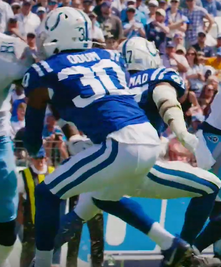 George Odum 2019. Image from video Titans Mic'd Up vs. Colts (Week 2) | Sounds of the Game, ~ 00:14